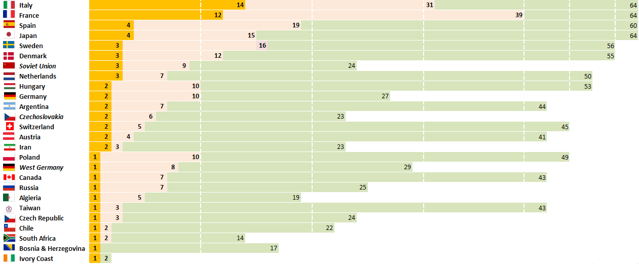 This graph shows countries ordered by number of Academy Award winners and nominees for Best Foreign Language Film